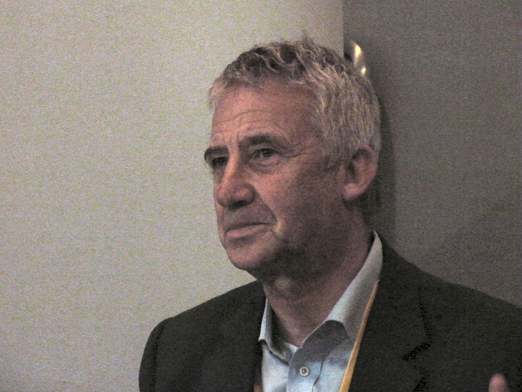 Mike Storey, Baron Storey at a fringe meeting of the 2011 Liberal Democrats autumn conference in Birmingham